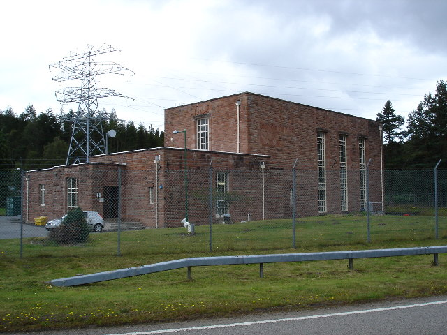 Grudie Bridge Power Station. Art Deco hydro-electric power station. There is a polar bear in the brickwork above the end window.